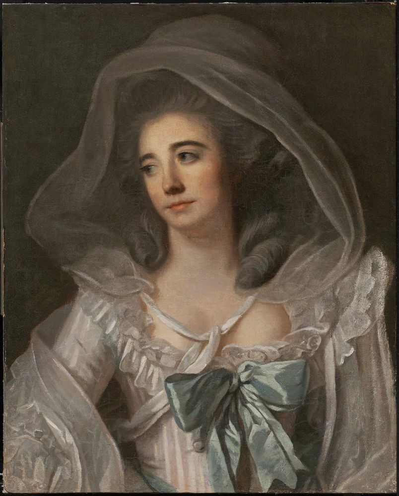 Portrait of Anna Beloselskaya-Belozerskaya (1773-1846)